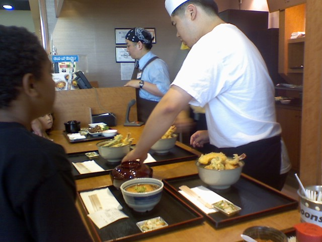 Me ordering Soba noodle at Mitsuwa Marketplace in Edgewater, New Jersey, USA.